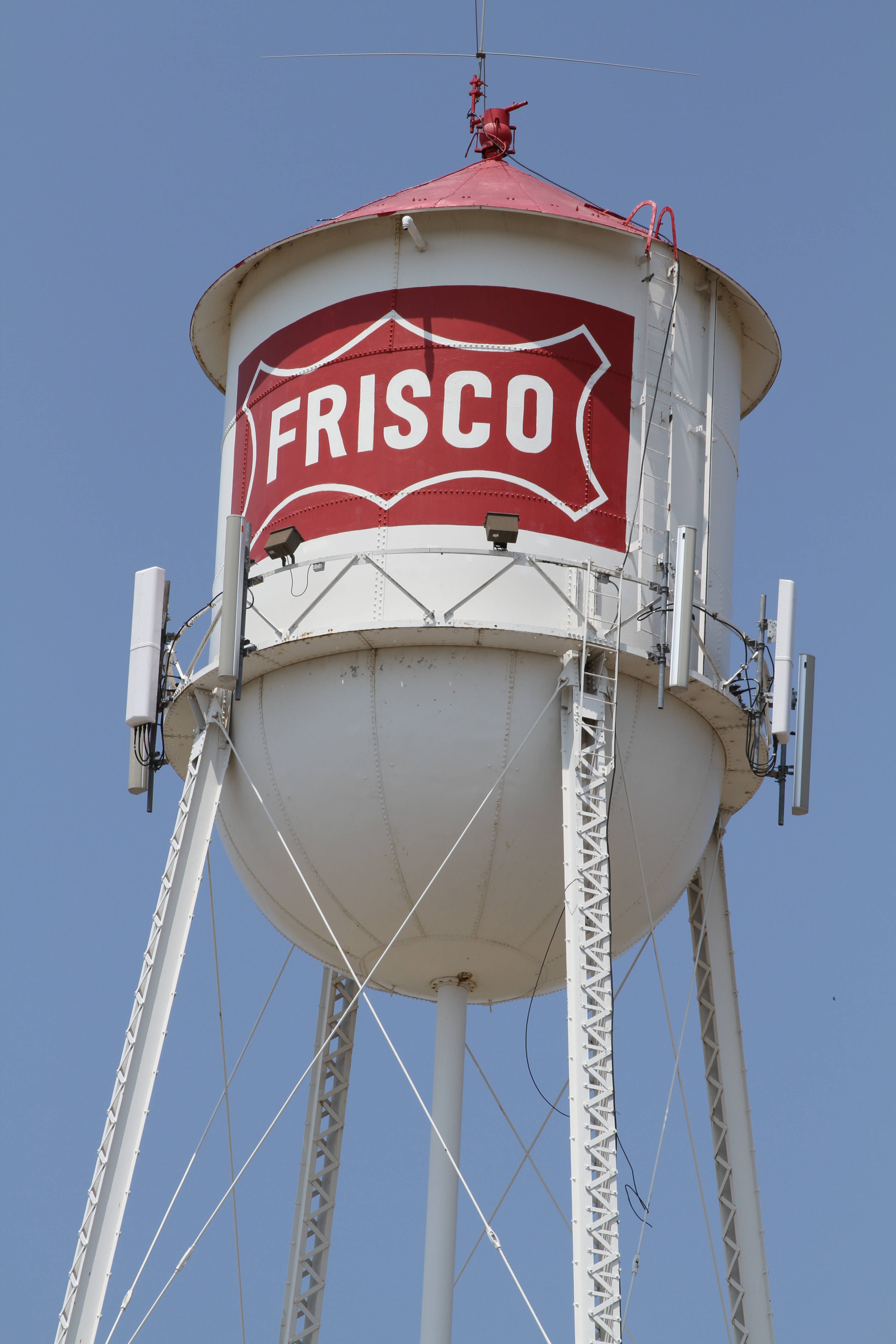 The old water tower in downtown Frisco, Tx, USA.